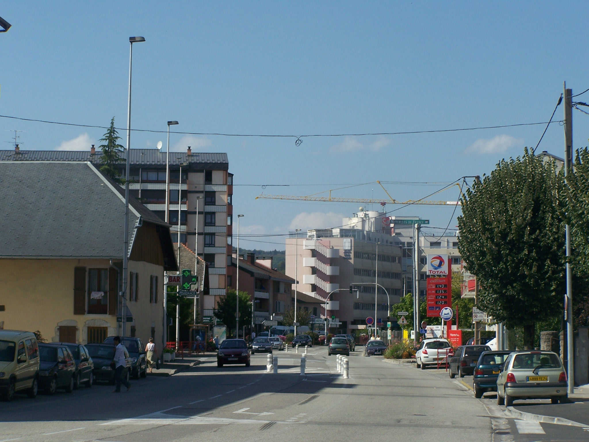 Sight of the commune of Meythet center, near Annecy in Haute-Savoie, France.